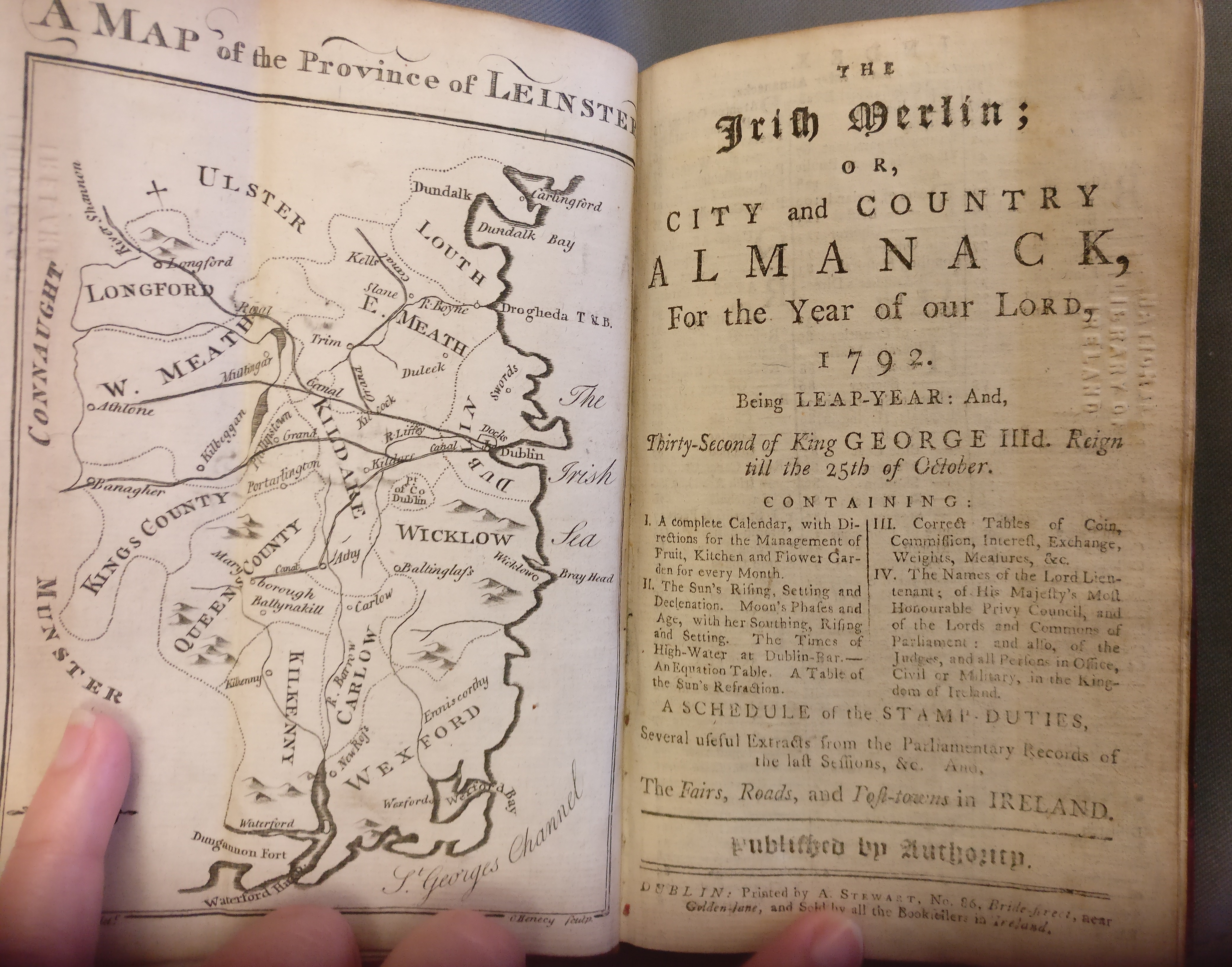 This is the introductory page of the 1792 edition. This edition is held at the National Library of Ireland.